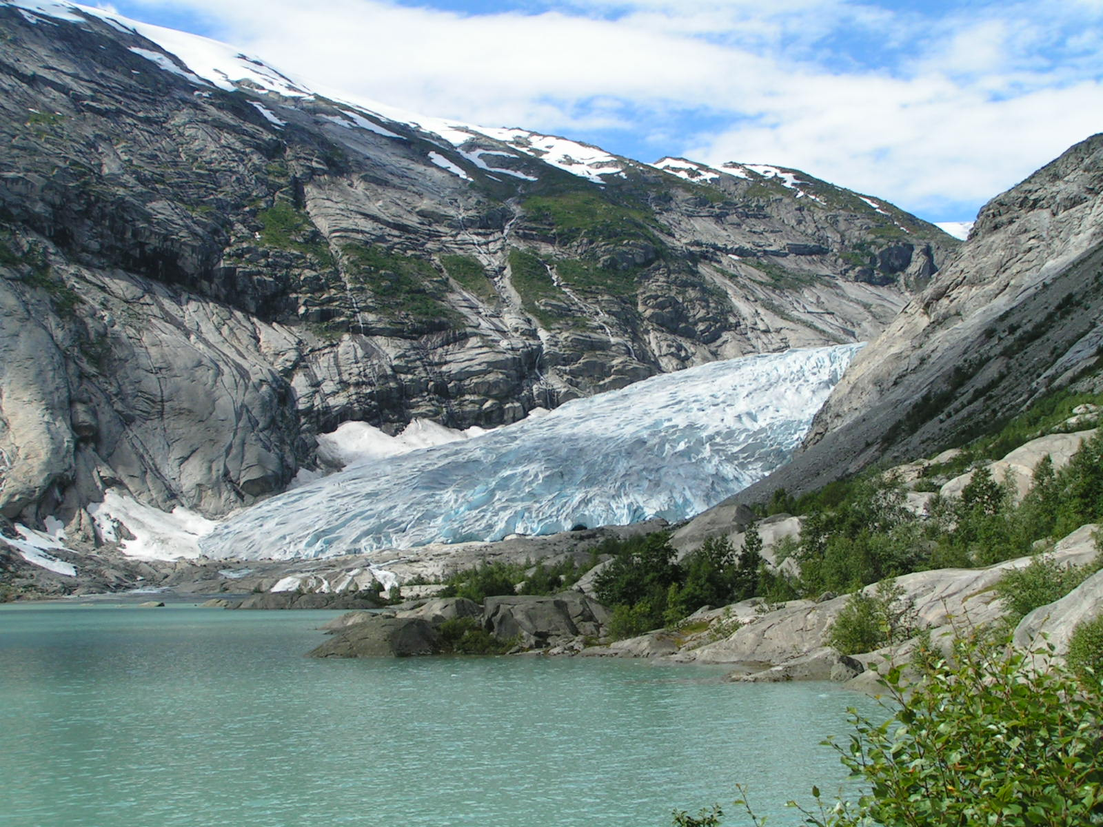 The glacier Nigardsbreen and the lake Nigardsbrevatnet in Luster municipality in Sogn og Fjordane county in Norway. Compare this photo with Image:Nigardsbreen-Norway-close-up.jpg to get an idea about the size. The black hole in the ice can be seen in both photos.